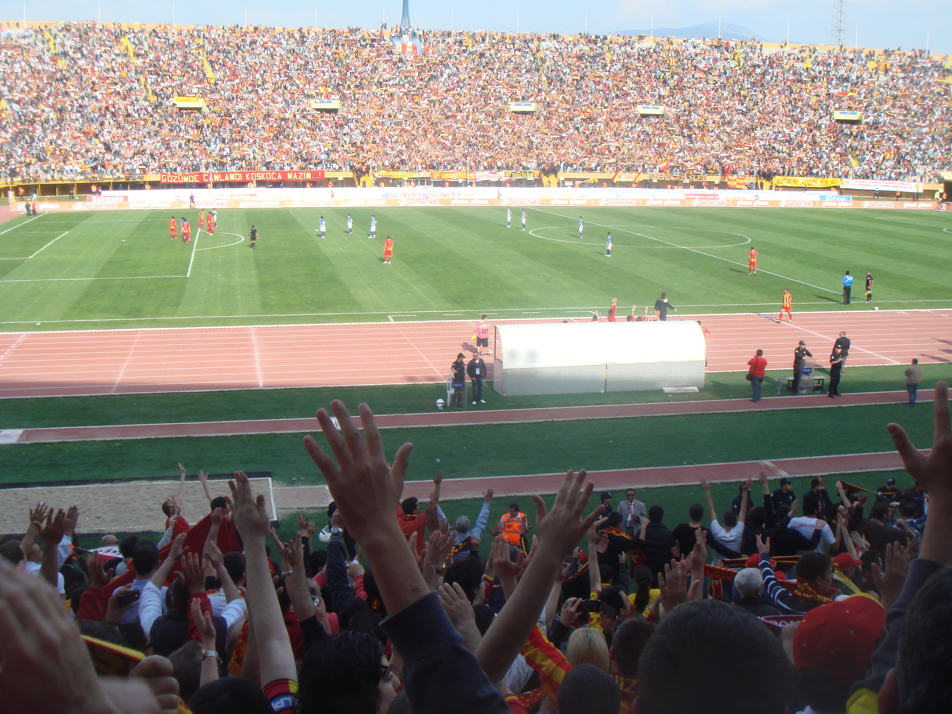 Almost 40.000 spectators at the championship match of the 2010/11 Season. Göztepe won by 2-0 and made its way back to the second turkish league